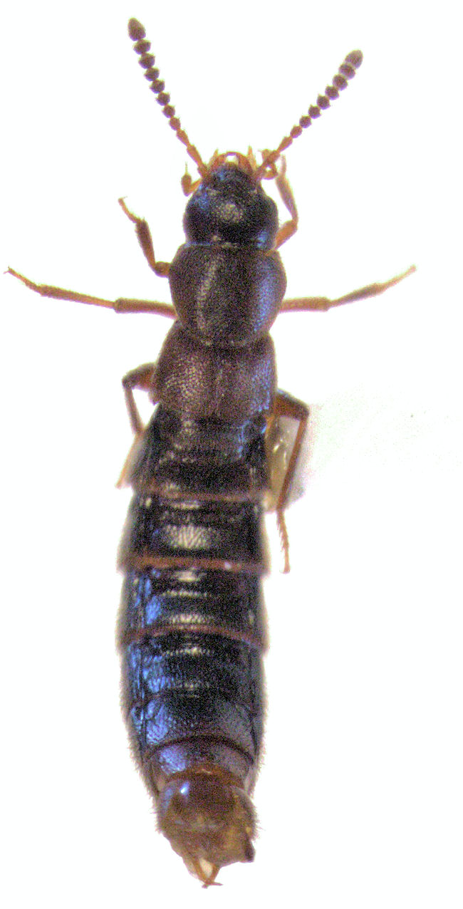 adult male Leptusa sp. 1 (c.f. antarctica) from Antipodes Islands, length about 3.5 mm. NEW ZEALAND AN, Mt Galloway, litter, 8 Feb 2011, J.C. Russell.